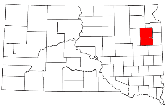 Locator map of the Watertown Micropolitan Statistical Area in the northeastern part of the U.S. state of South Dakota.